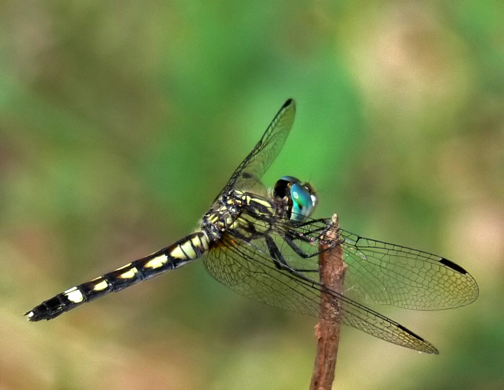 Micrathyria hagenii. Hornsby Bend on the Colorado River, Austin, Texas.